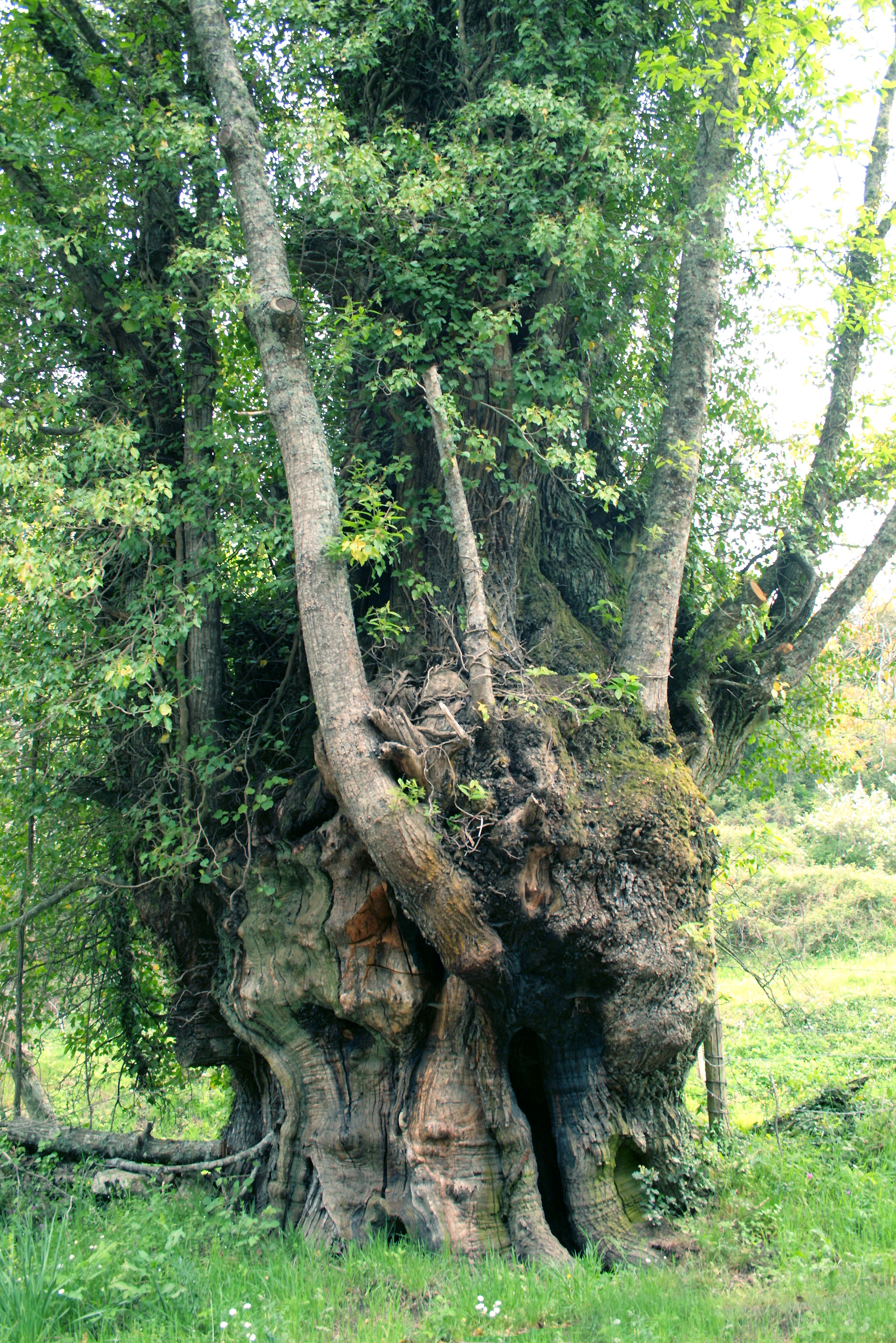 Sweet Chestnut (Castanea sativa) thousand of years old. - Habit: road of Cucuruzzu site in Levie ( Corse-du-Sud) - France. Corsu: Castagnu (Castanea sativa) millanicu. - Locu: rotta di Cucuruzzu à Livia ( Corsica sutanna) - Francia. Walon: Castagnî (Castanea sativa) vî di mil ans - Place: route do site di Cucuruzzu a Levie – Corse-do-Sud - France.